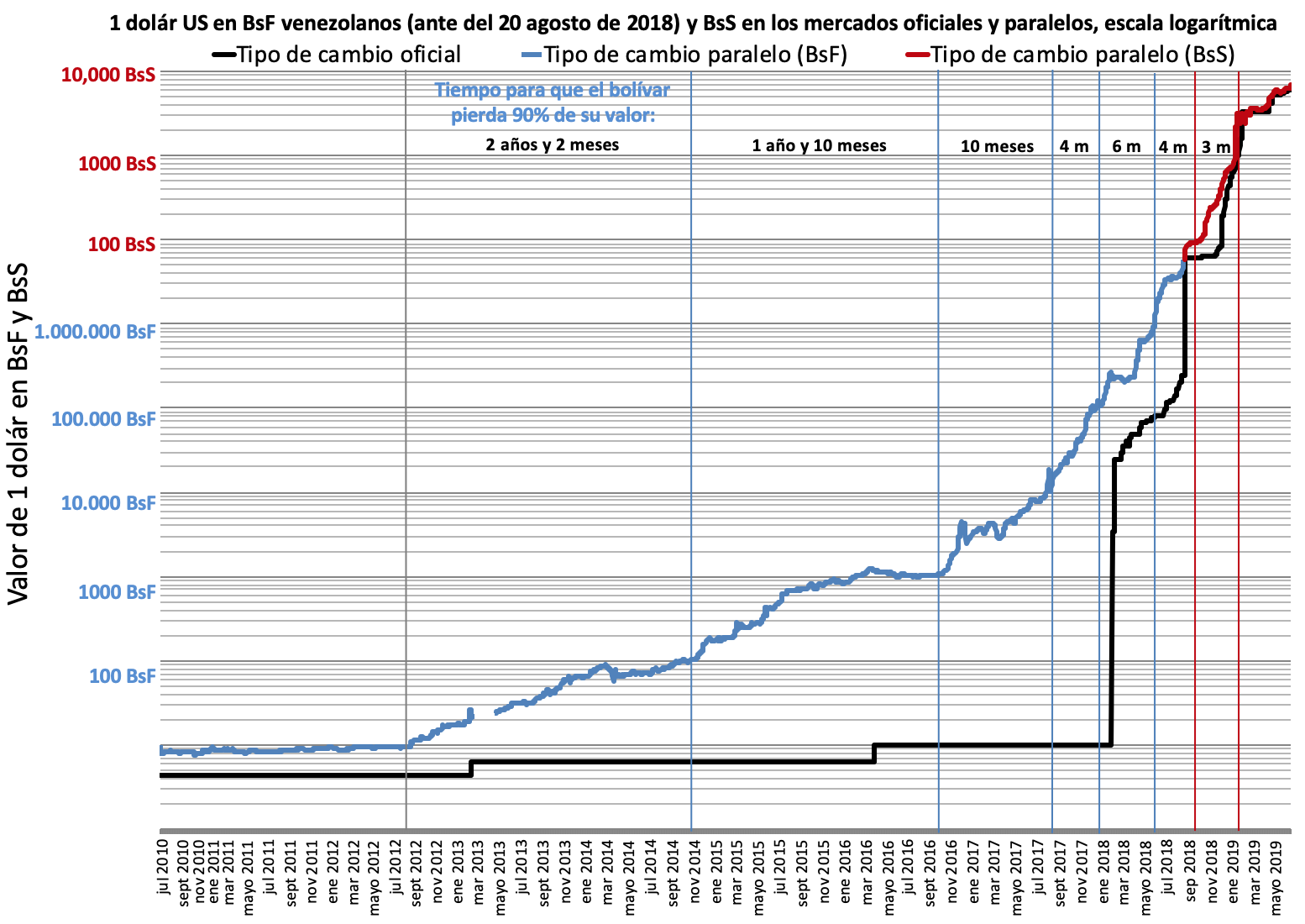 See English version.